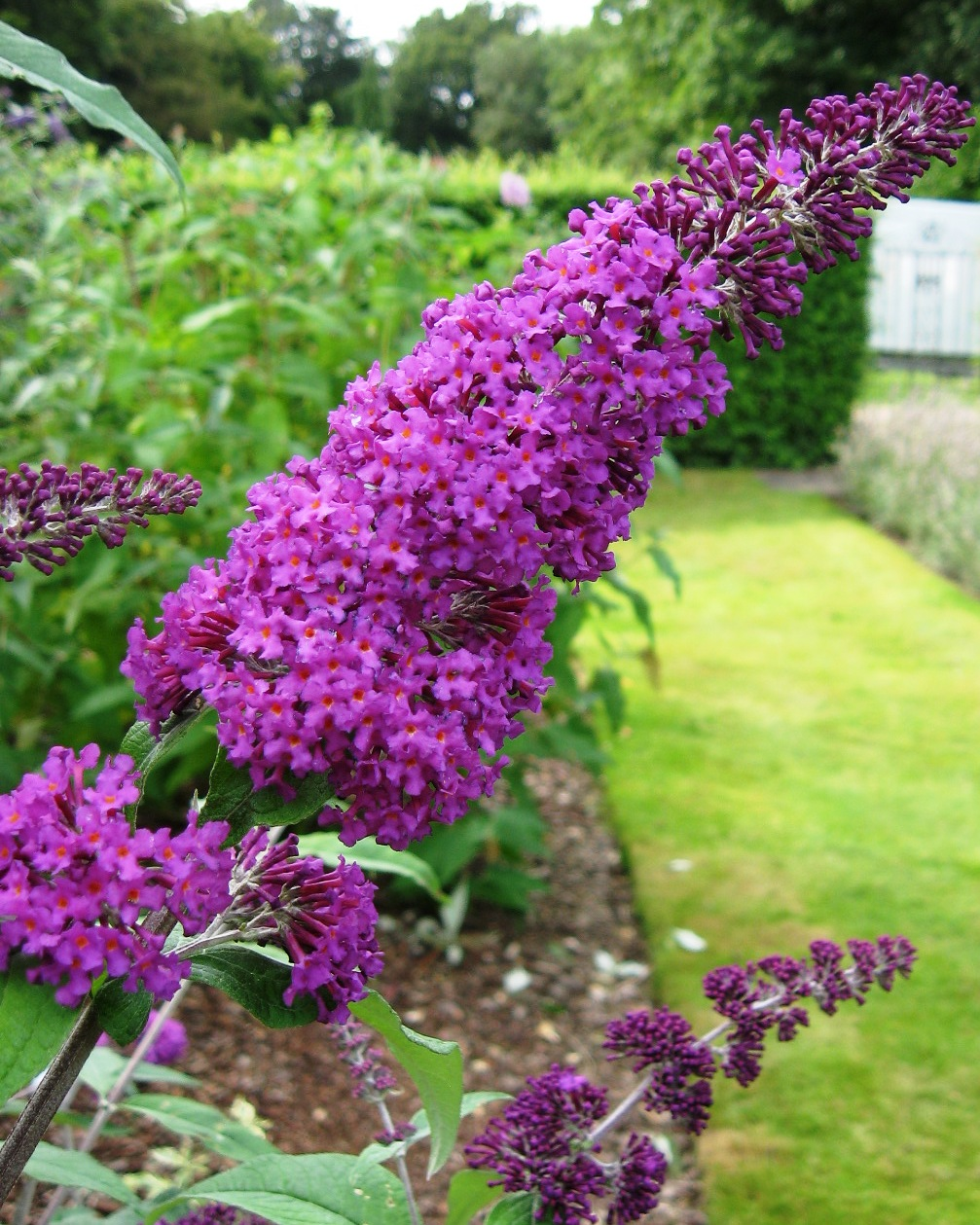 Photo taken at the Longstock Park Nursery, UK, NCCPG national buddleja collection holder, August 2012